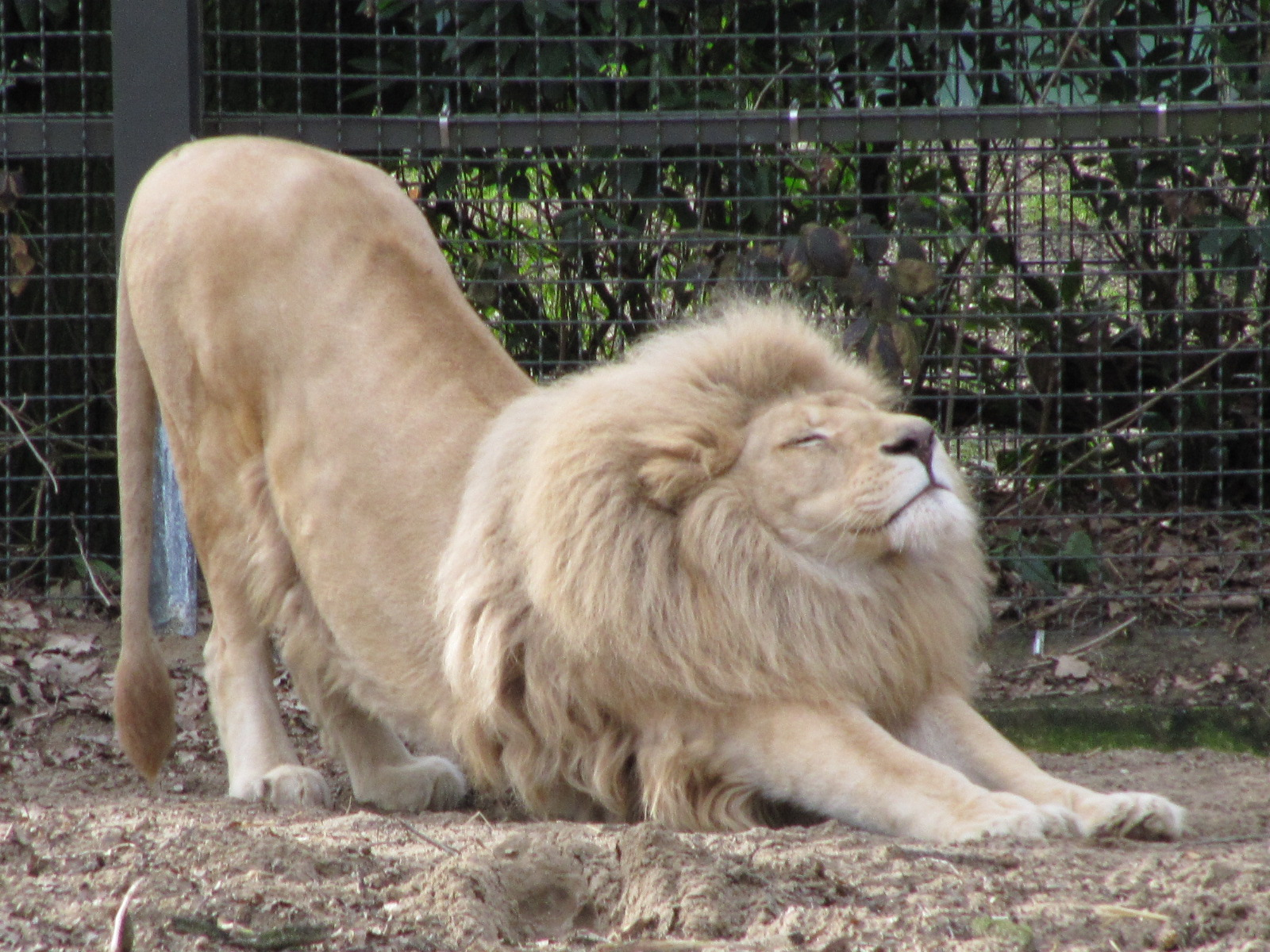 A stretching lion at Ouwehands Dierenpark.